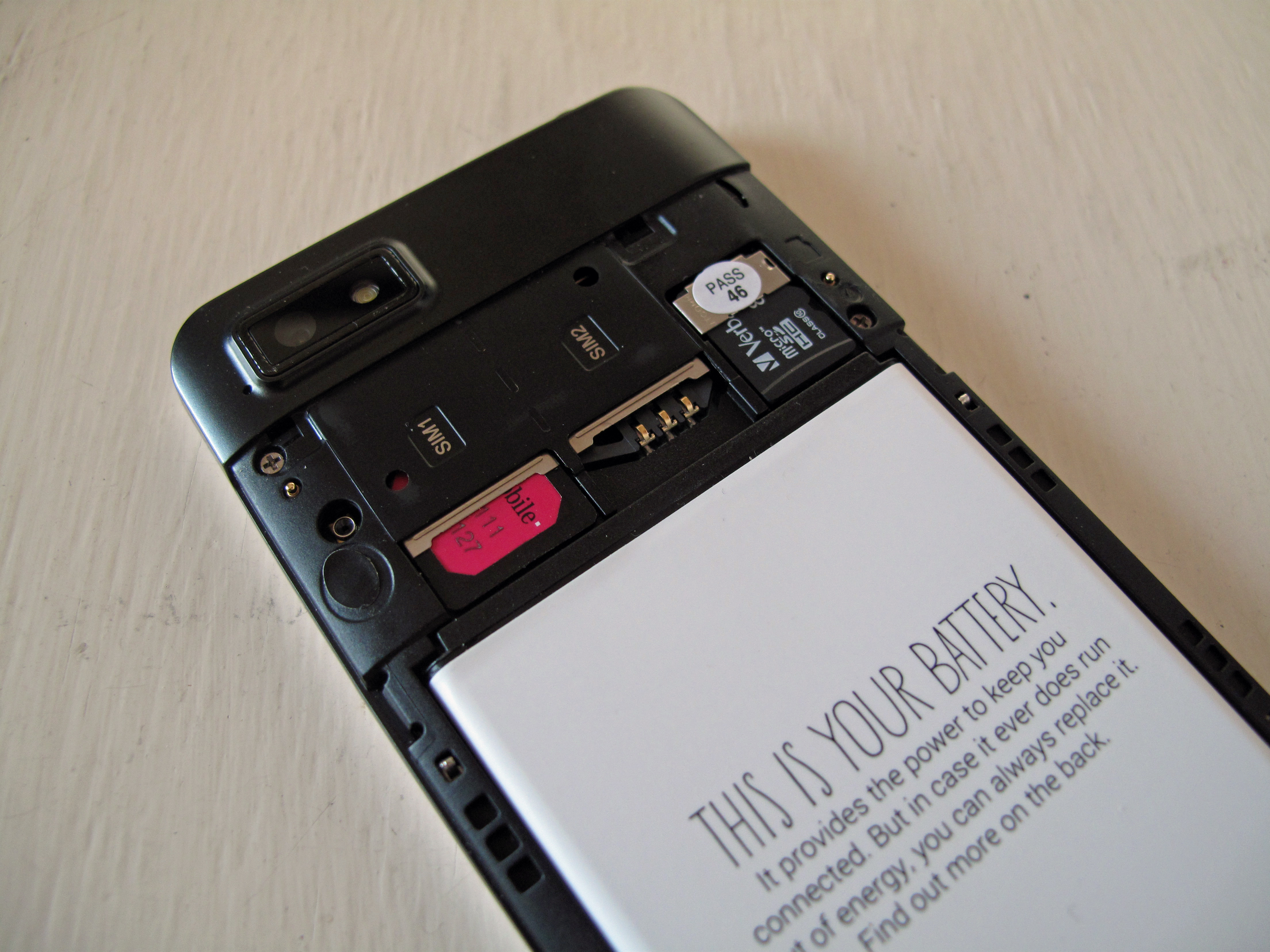 Fairphone, with the back lid removed. Battery + two sim slots and one SDHC card slot visible.